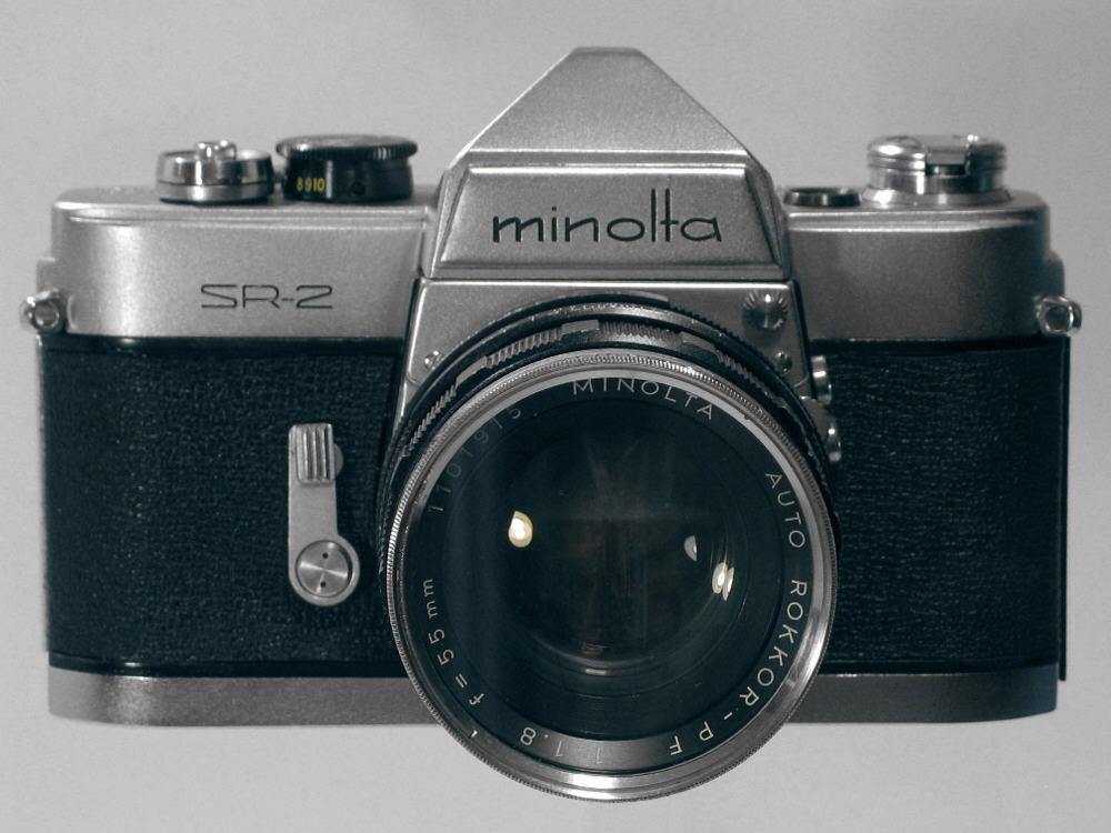 Front view of Minolta SR-2